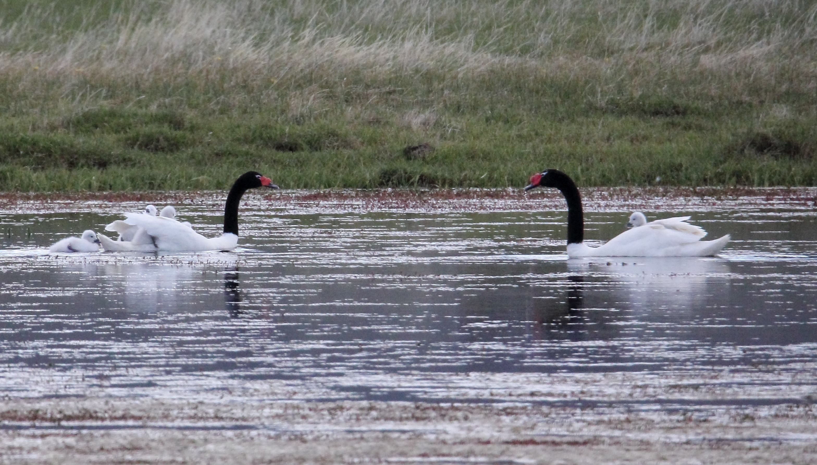 Black-necked Swan (Cygnus melancoryphus)with chicks